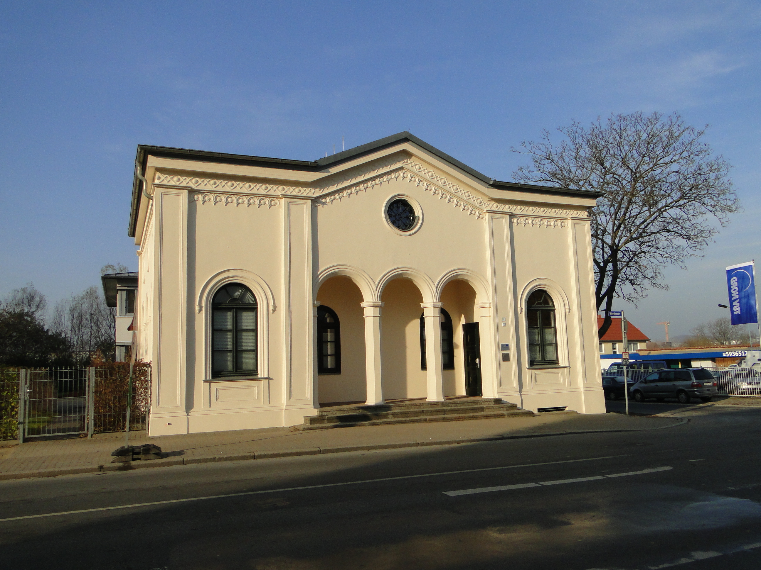 Street Werderstraße in Schwerin, Mecklenburg-Vorpommern, Germany